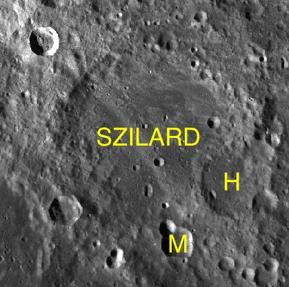 LRO image used for the presentation